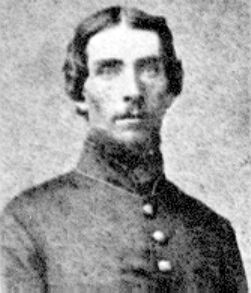 Private Horace Parnell Tuttle, 44th Massachusetts Volunteer Infantry, c. 1862